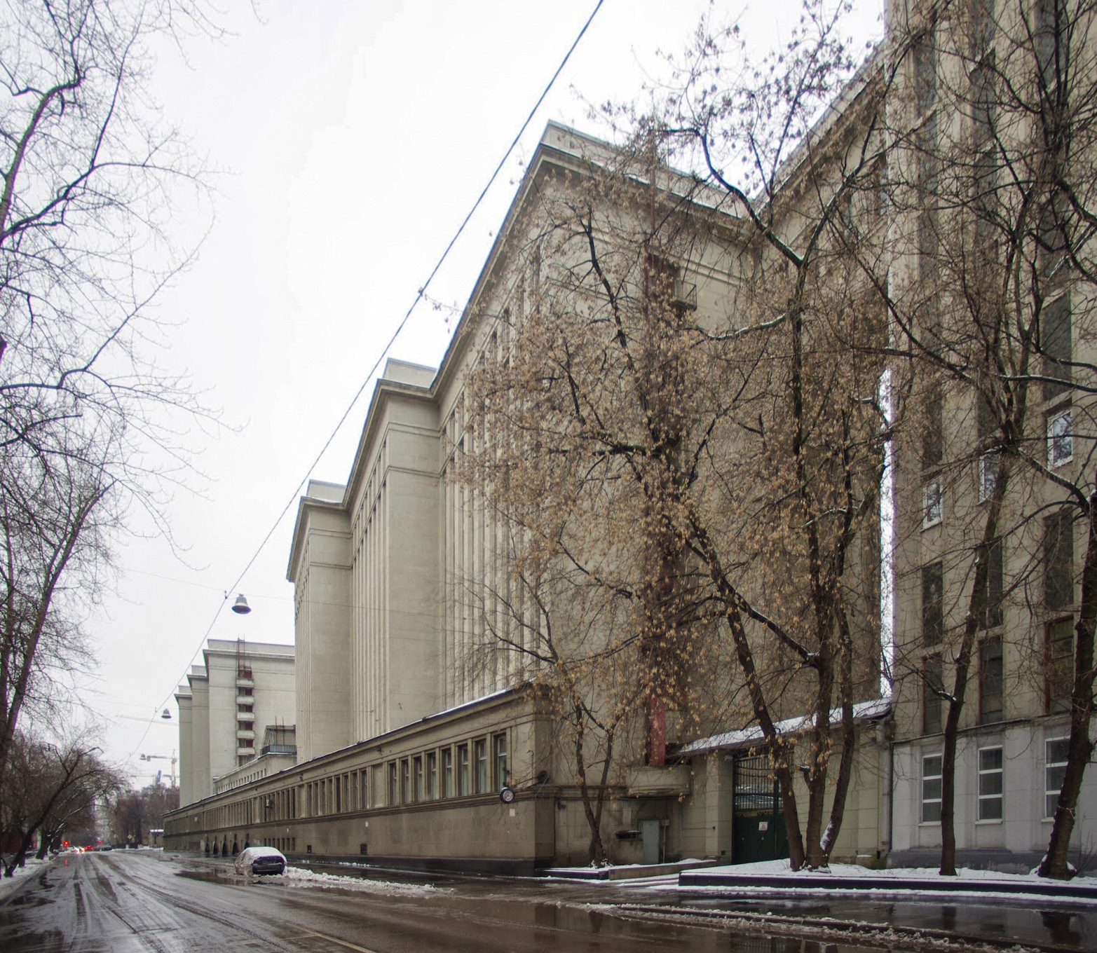 Building of the State Archive // Khamovniki District, Moscow, Russia